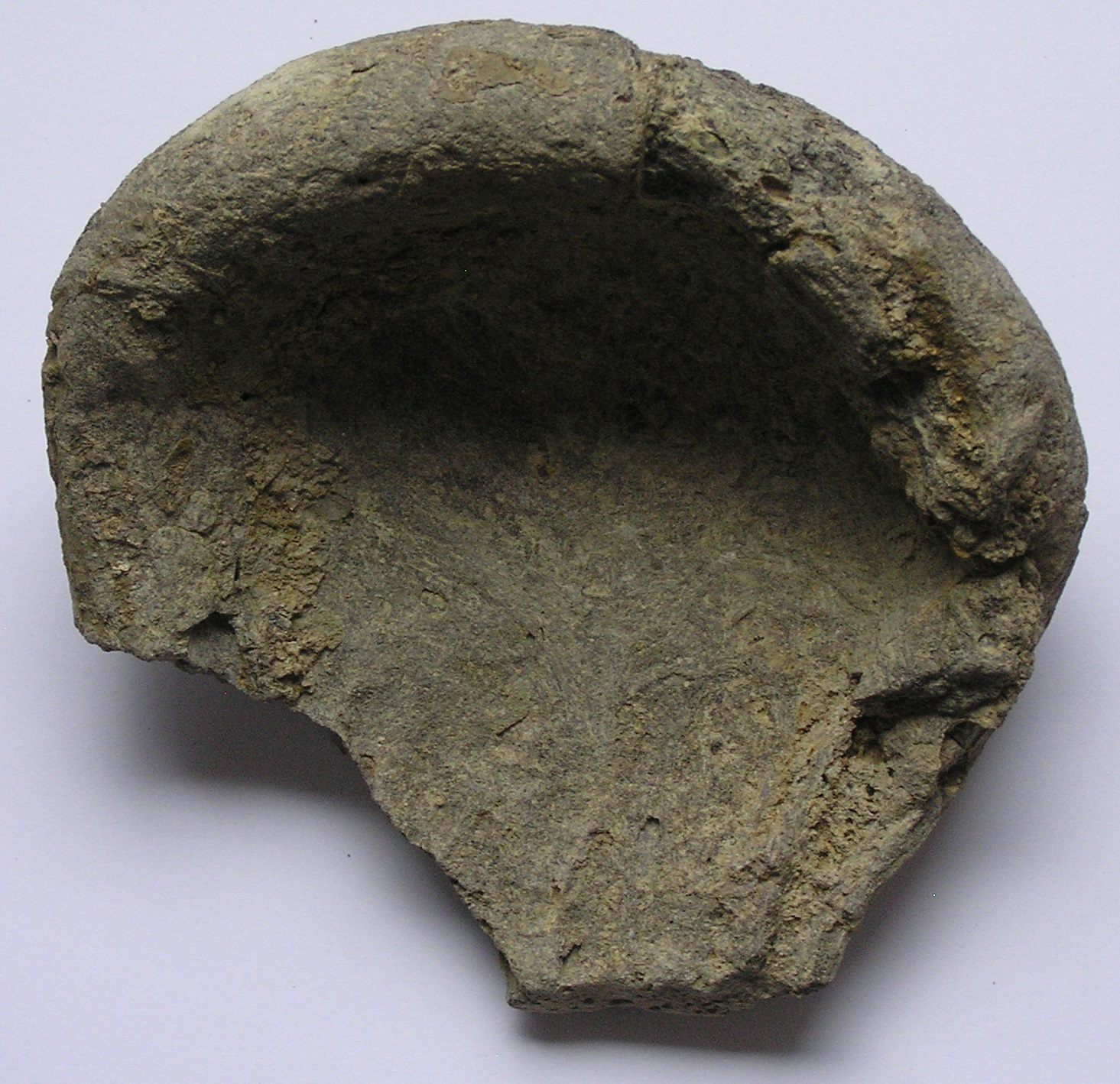 Flädle